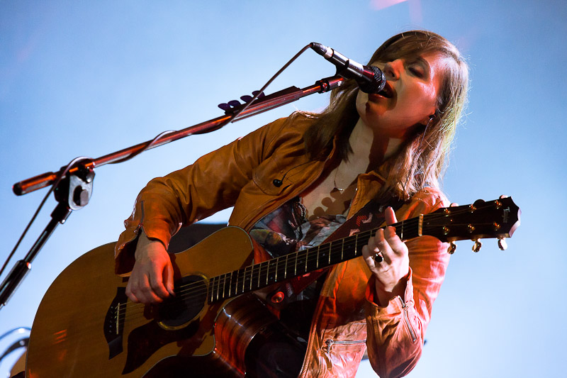 Polish singer Edyta Bartosiewicz at Orange Warsaw Festival